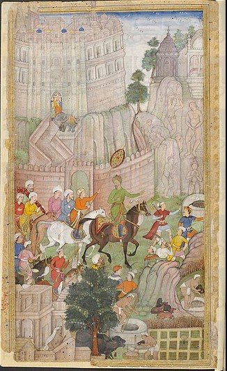 The "Memoirs of Babur" or Baburnama are the work of the great-great-great-grandson of Timur (Tamerlane), Zahiruddin Muhammad Babur (1483-1530). The Baburnama tells the tale of the prince's struggle first to assert and defend his claim to the throne of Samarkand and the region of the Fergana Valley. After being driven out of Samarkand in 1501 by the Uzbek Shaibanids, he ultimately sought greener pastures, first in Kabul and then in northern India, where his descendants were the Moghul (Mughal) dynasty ruling in Delhi until 1858. The miniatures are from an illustrated copy of the Baburnama prepared for the author's grandson, the Mughal Emperor Akbar. It is worth remembering that the miniatures reflect the culture of the court at Delhi; hence, for example, the architecture of Central Asian cities resembles the architecture of Mughal India. Nonetheless, these illustrations are important as evidence of the tradition of exquisite miniature painting which developed at the court of Timur and his successors. Timurid miniatures are among the greatest artistic achievements of the Islamic world in the fifteenth and sixteenth centuries. Illustrations of Mughals from the Baburnama